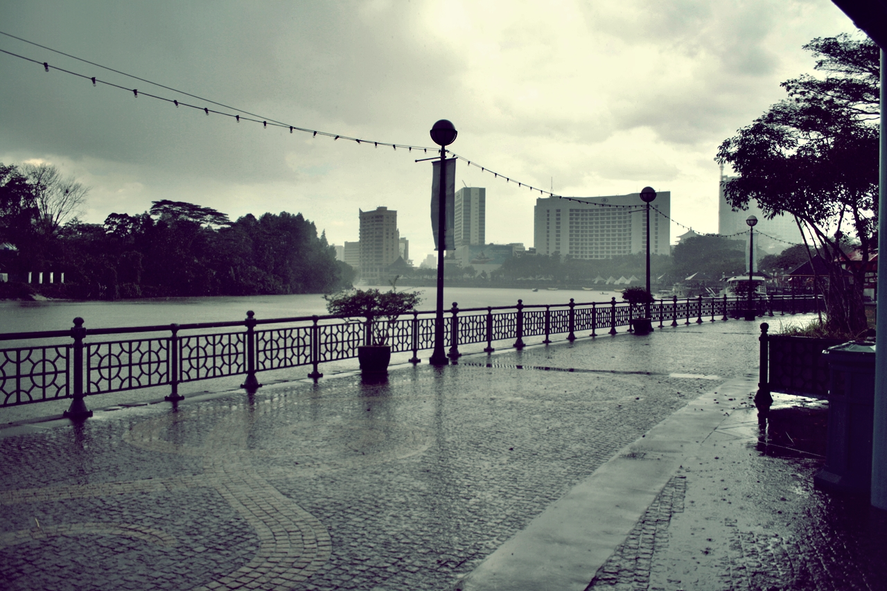 As i feel my way through the century, As i slowly turn to house dust, Tumbling down, The rain comes down like a victory, In sheets of shining memory, Over and over, Circling around Turin Brakes - Rain City